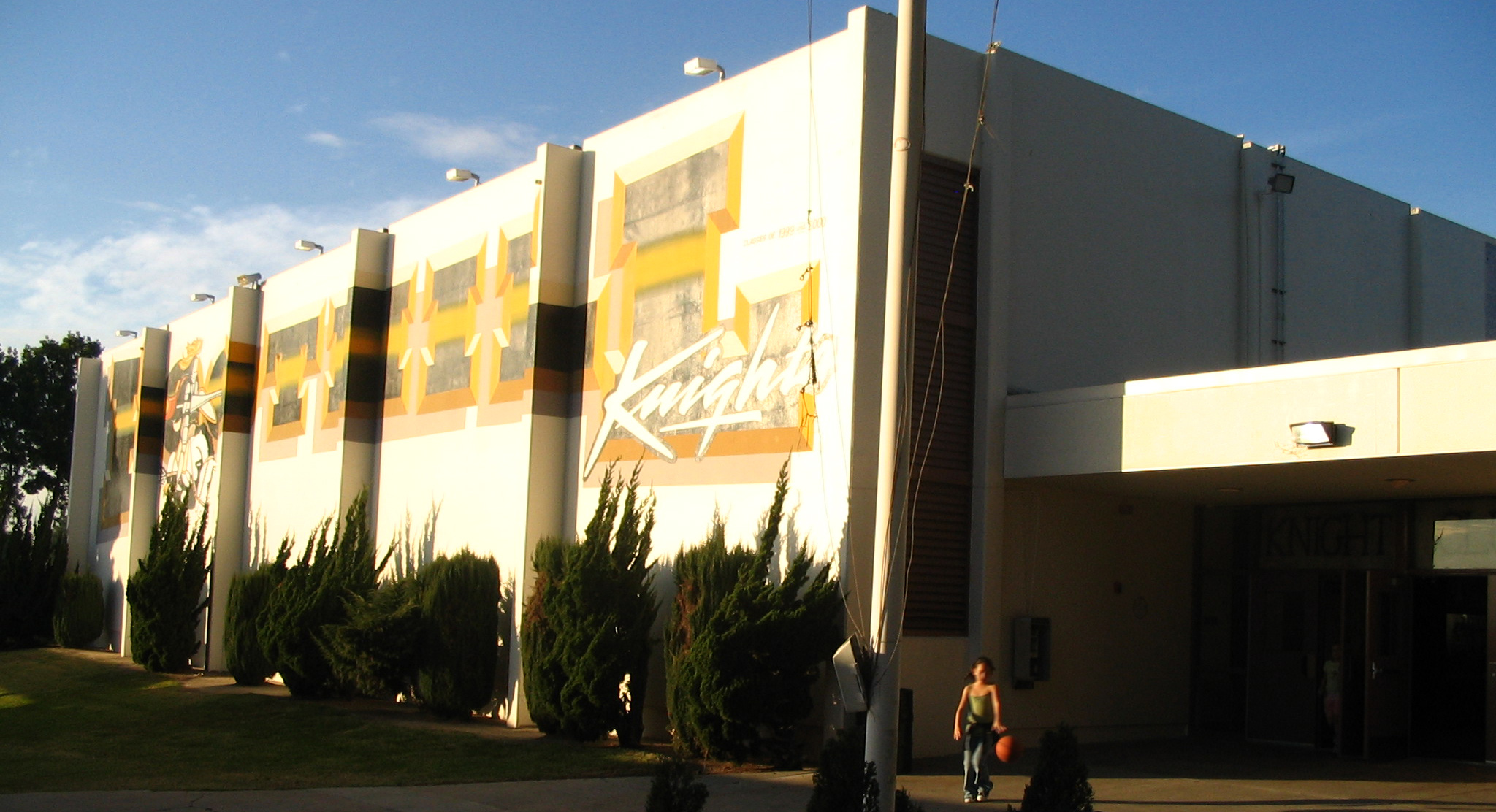 A photograph of the Foothill High School, Santa Ana, gym in 2006